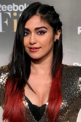 Adah Sharma attends Reebok Fit to Fight event